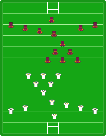 Diagram of a rugby league field, with the starting line-ups of the Warrington and Huddersfield teams for the 2009 Challenge Cup final.